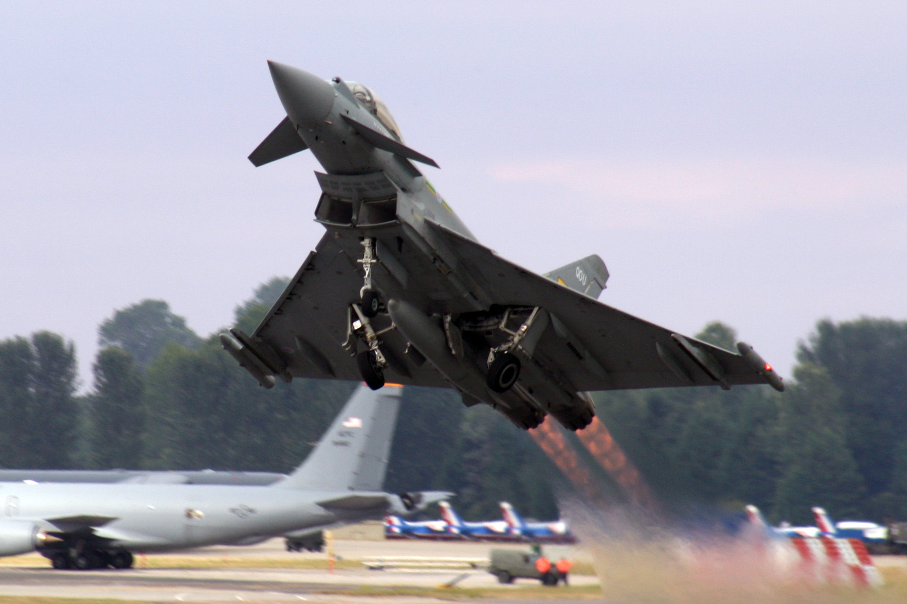 Eurofighter Typhoon FGR4 UK Air Force ZJ916 / QO-U C/N BS007